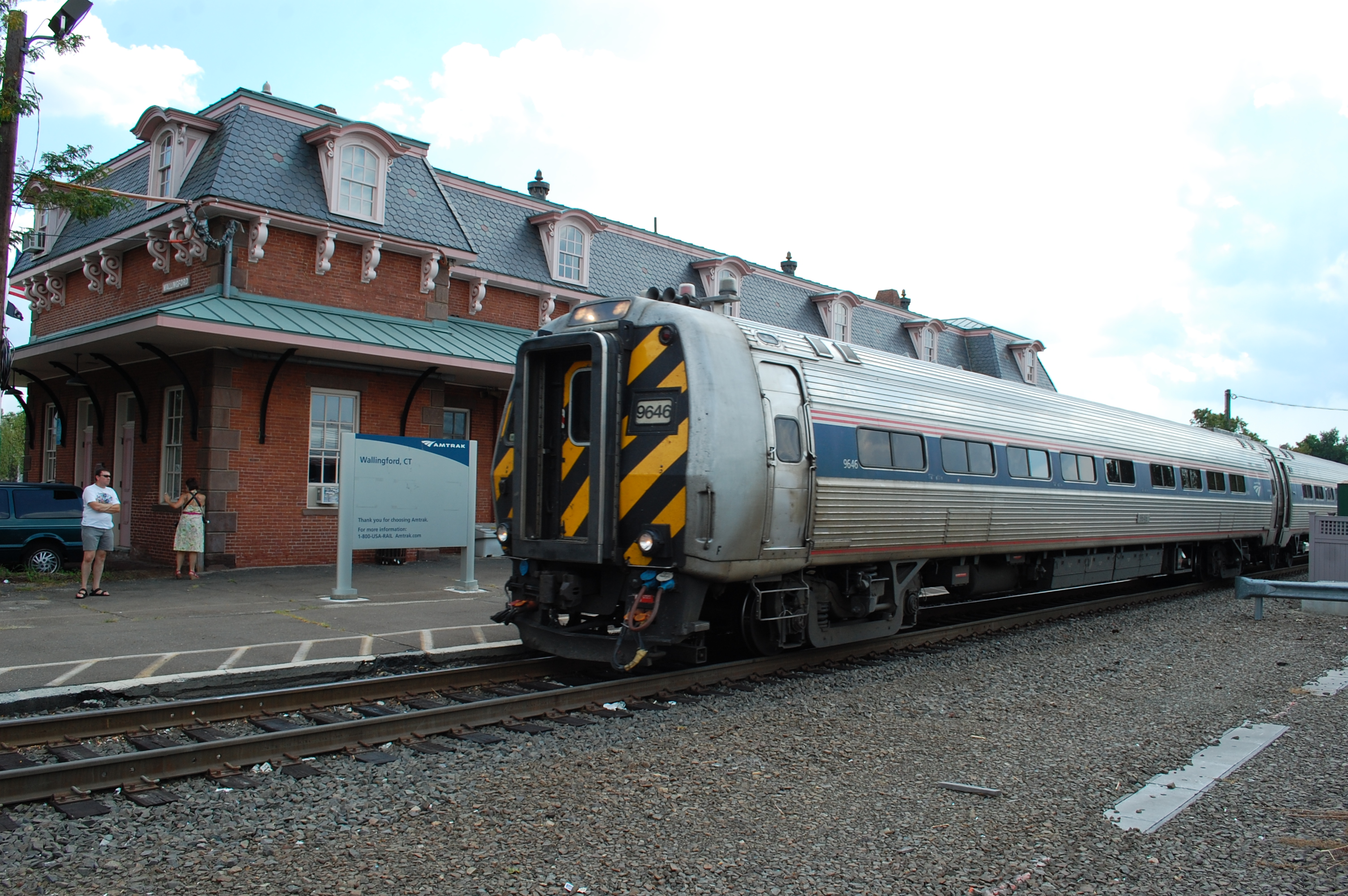 Northbound Amtrak Vermonter Train 56 seen at Wallingford, Conn. on 2012-09-01 at about 1:35 PM, with Metroliner cab car #9646